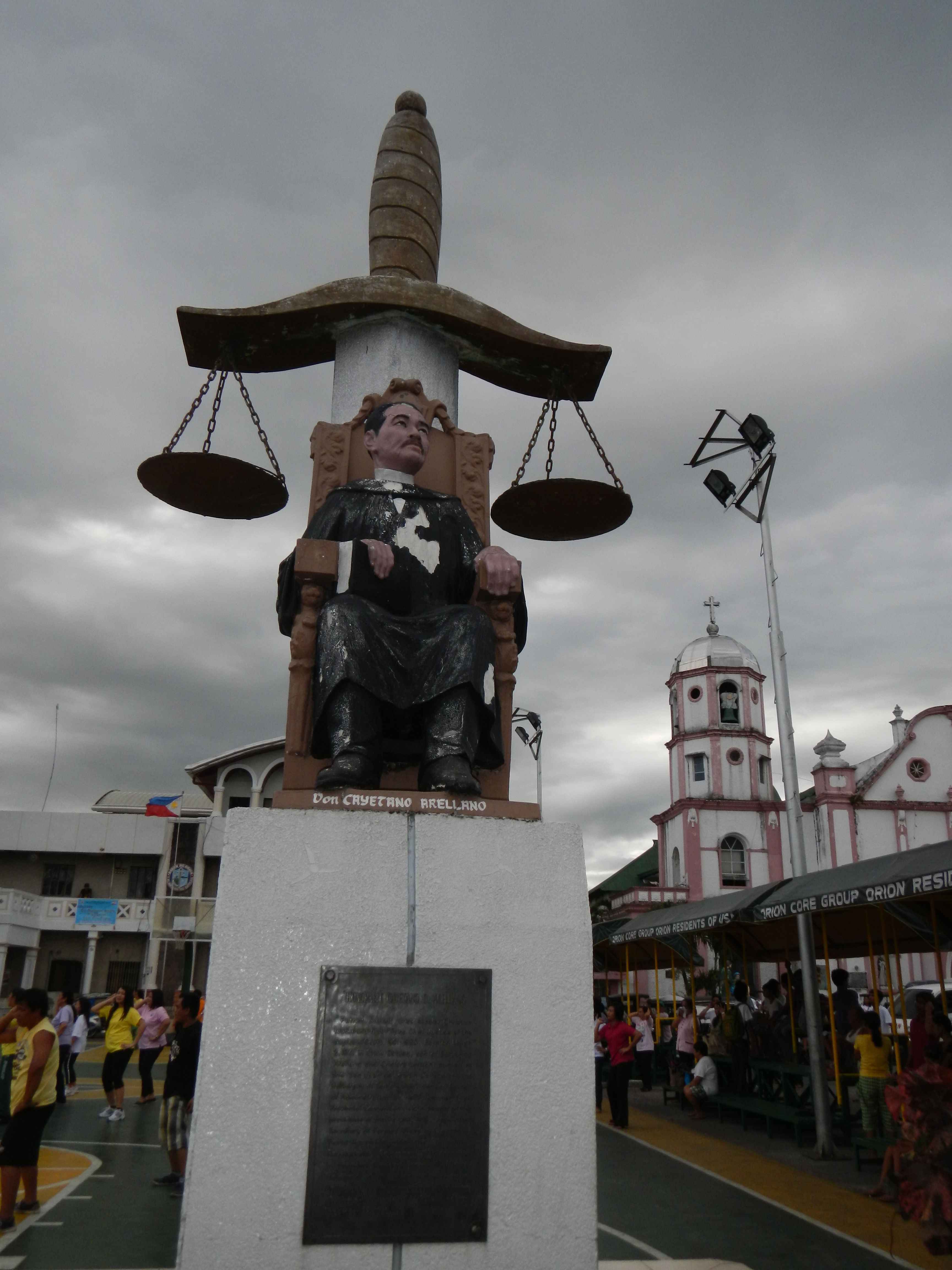 Orion, Bataan[1]Orion is a 2nd class municipality in the province of Bataan, Philippines. Orion is accessible via the Bataan Provincial Expressway, off Exit 40.[2]